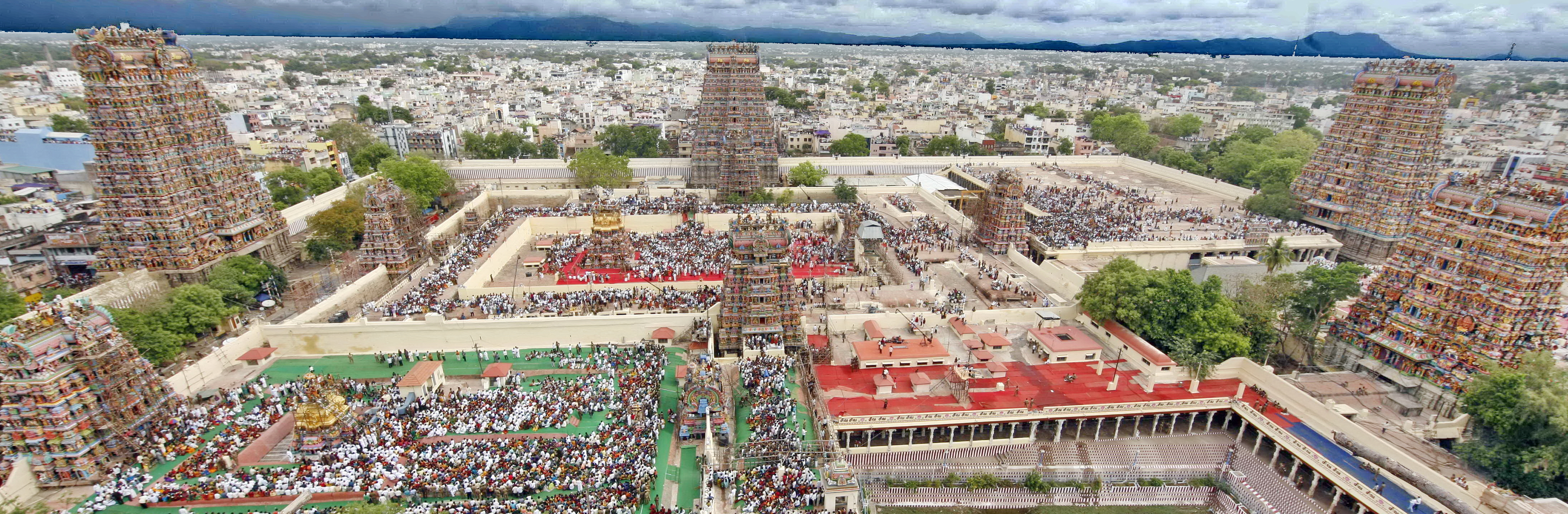 An aerial view of Madurai city from atop of Meenakshi Amman temple. Landscape at the horizon is not original and has been badly photoshopped.